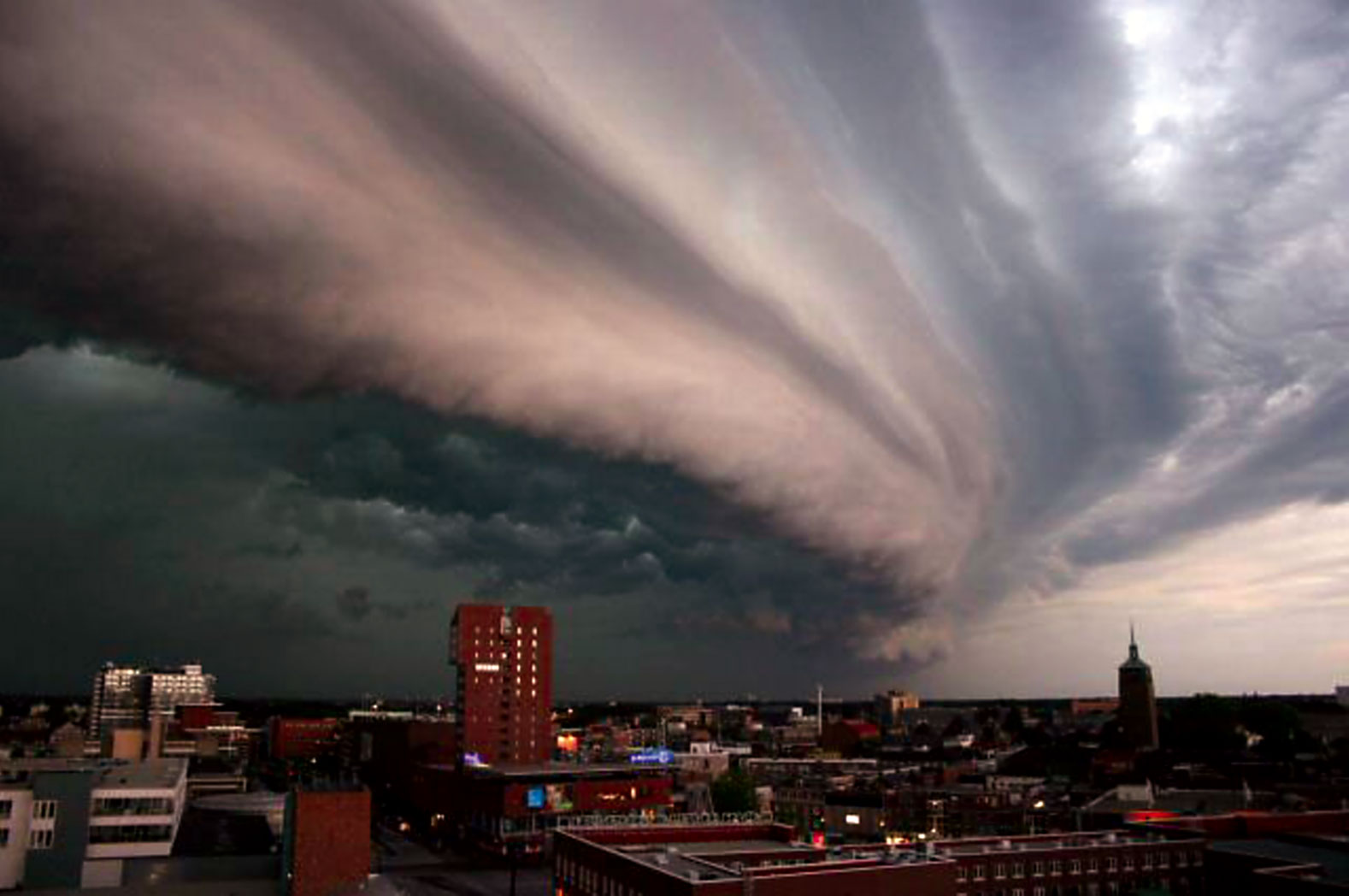 Rolling thunderstorm (Cumulonimbus arcus) photographed in Enschede, The Netherlands.